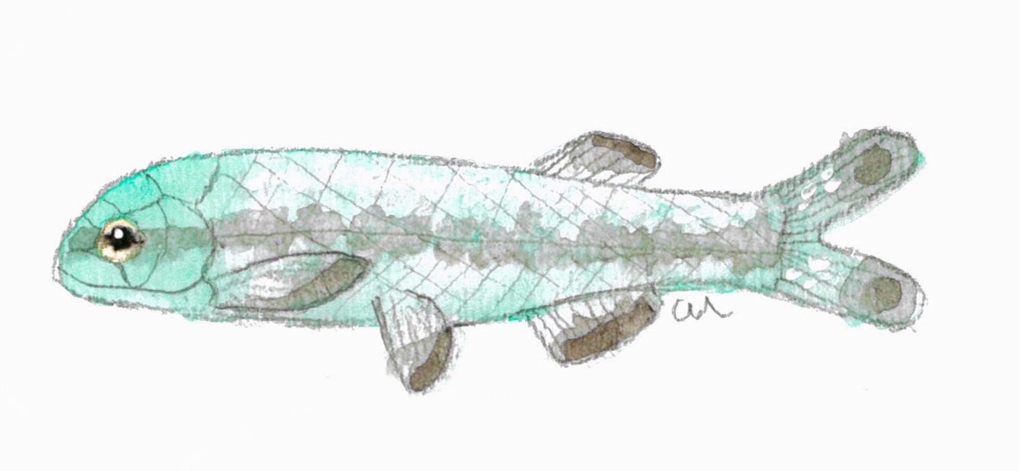 A reconstruction of Lycoptera davidii